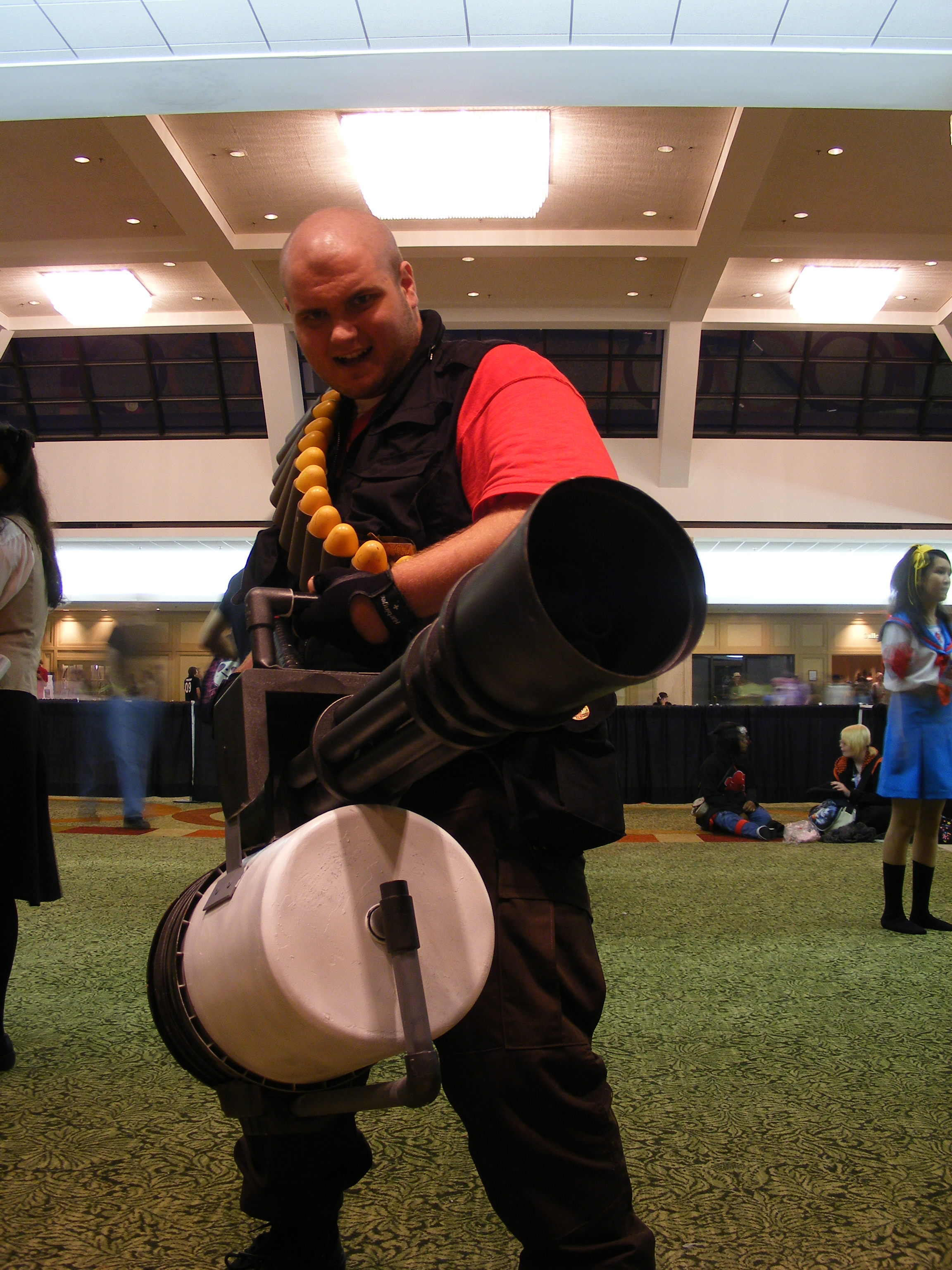 Cosplay - AWA15 - Heavy Weapons Guy